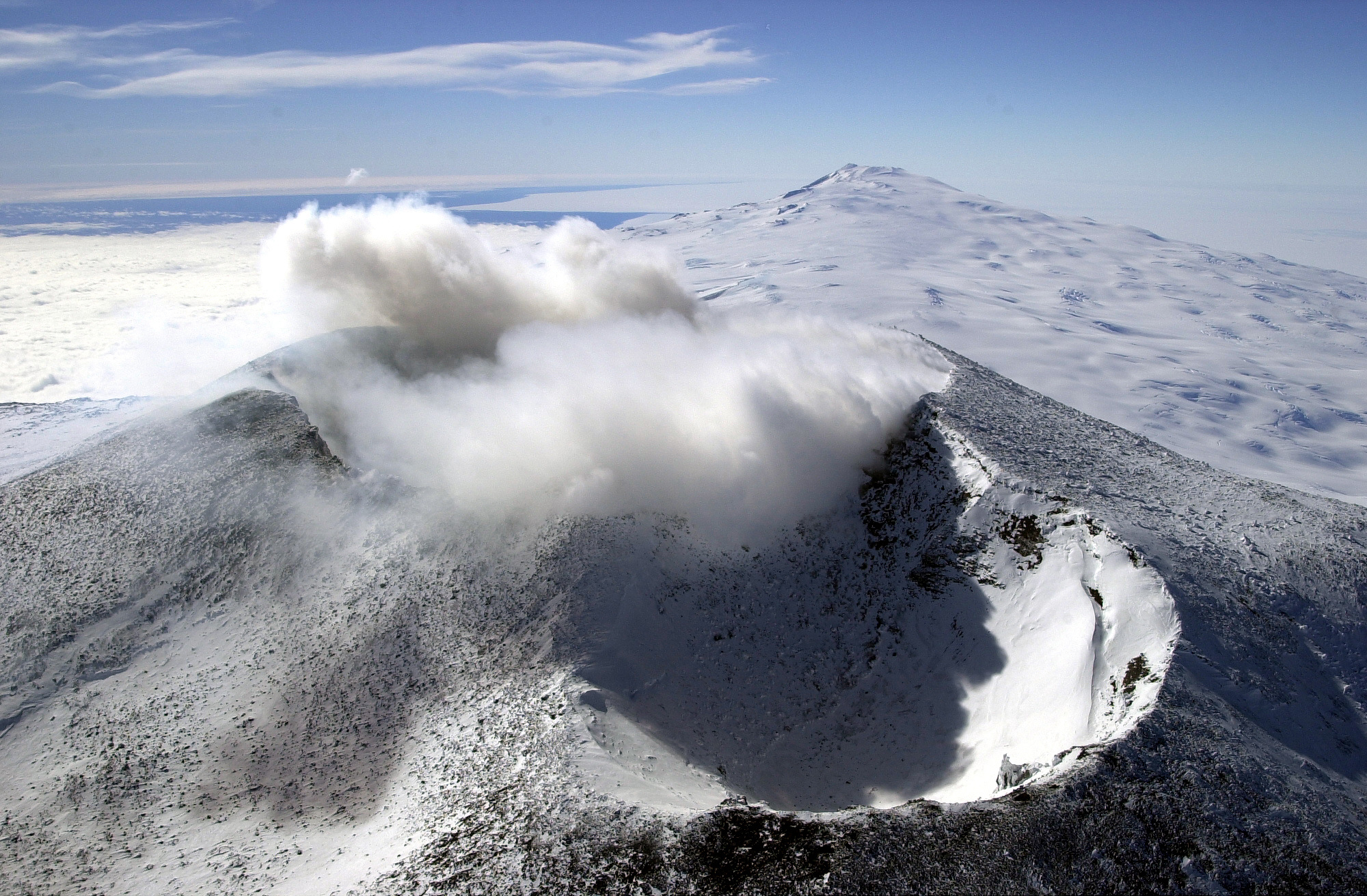 Aerial view of Mount Erebus craters in the foreground with Mount Terror in the background, Ross Island, Antarctica